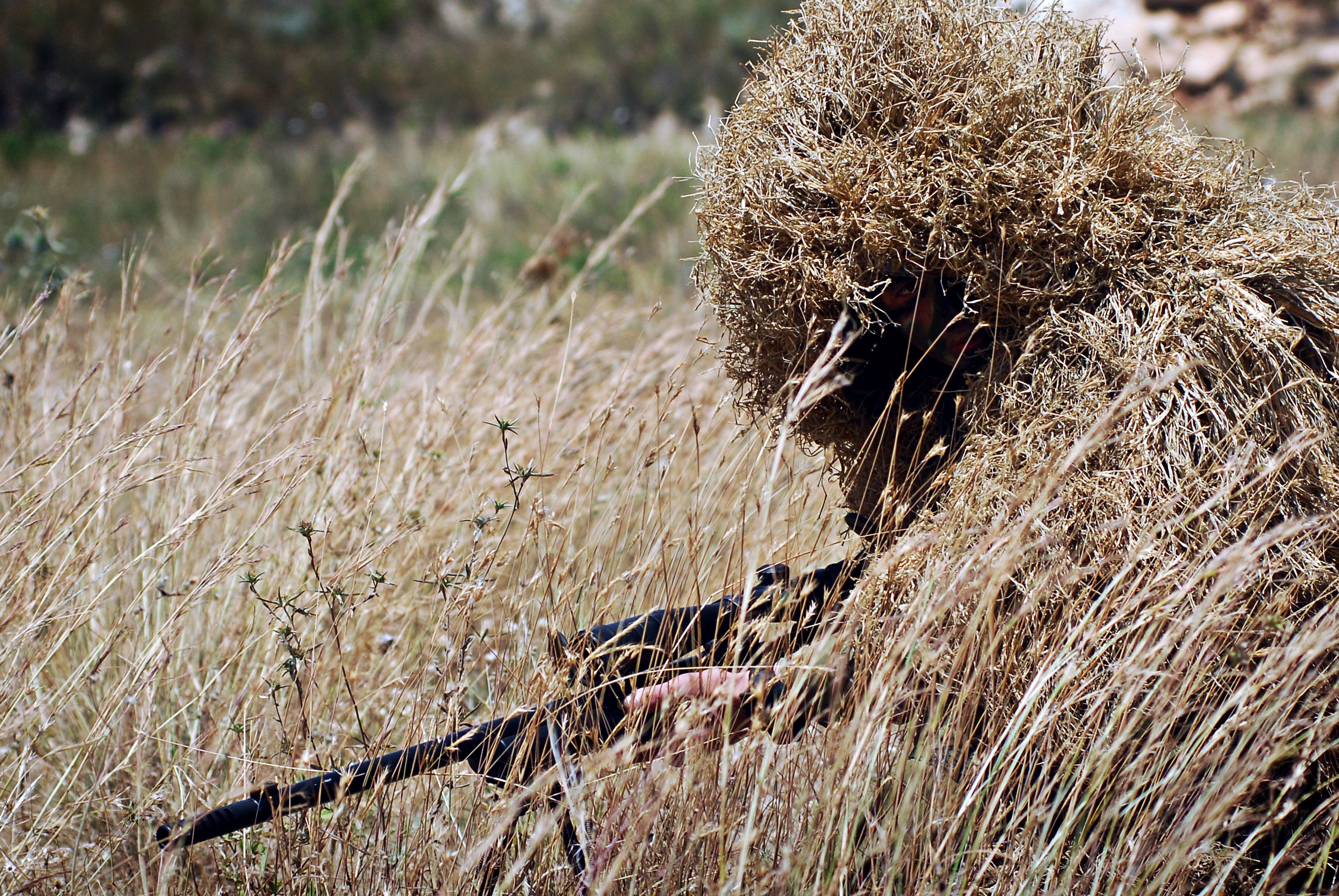 May 26, 2009. The soldiers of the Combat Engineering Corps display their new logistic and operational abilities at the Mitkan Adam military base. The display featured the Corps’ camouflage suits. Photo by Michael Shvadron, IDF Spokesperson’s Film Unit.